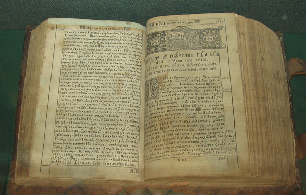 Meanaion (lives of the saints), published 1714 in Kiev. The book is open to December 25, the Nativity of the Lord.